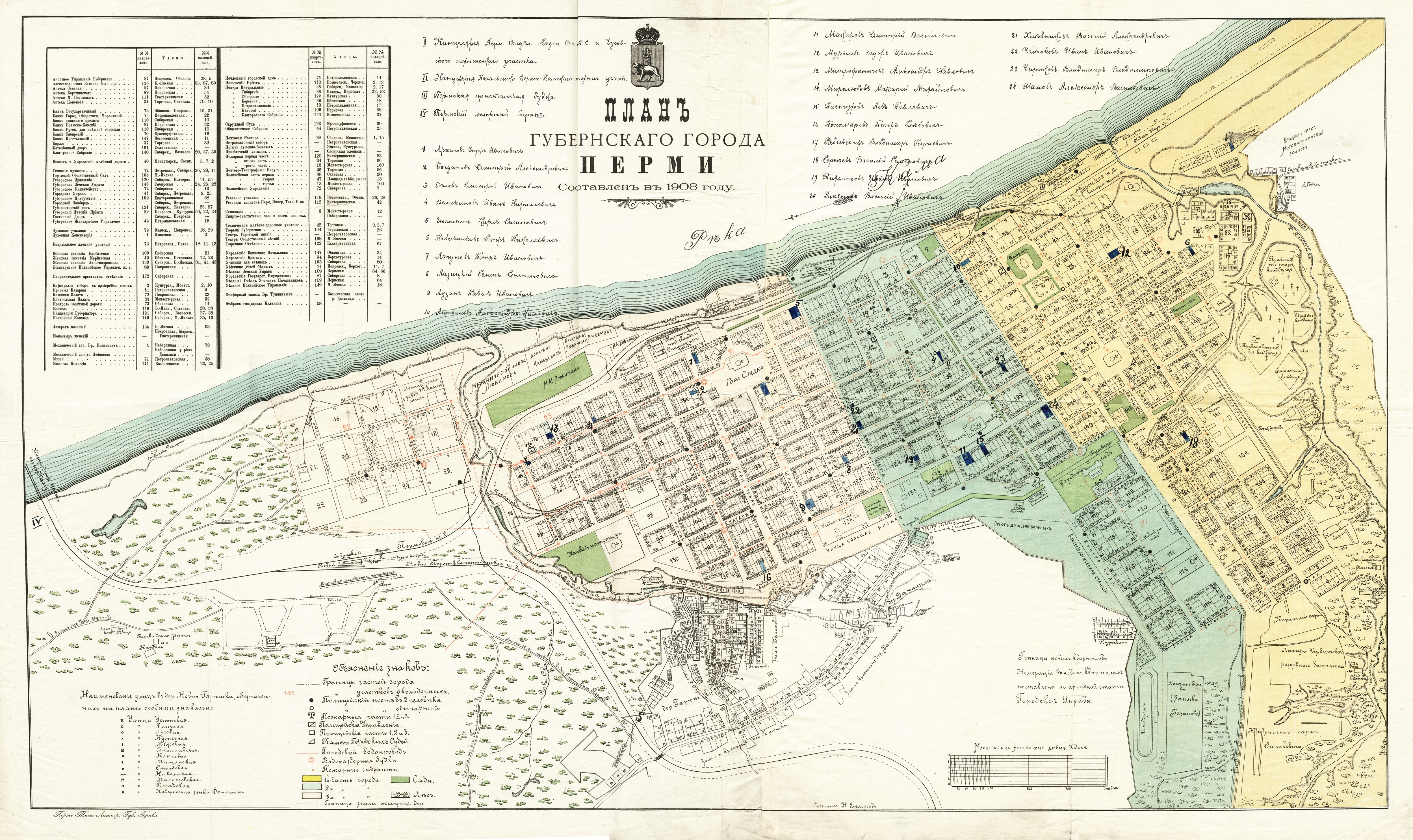 Perm Map in 1908